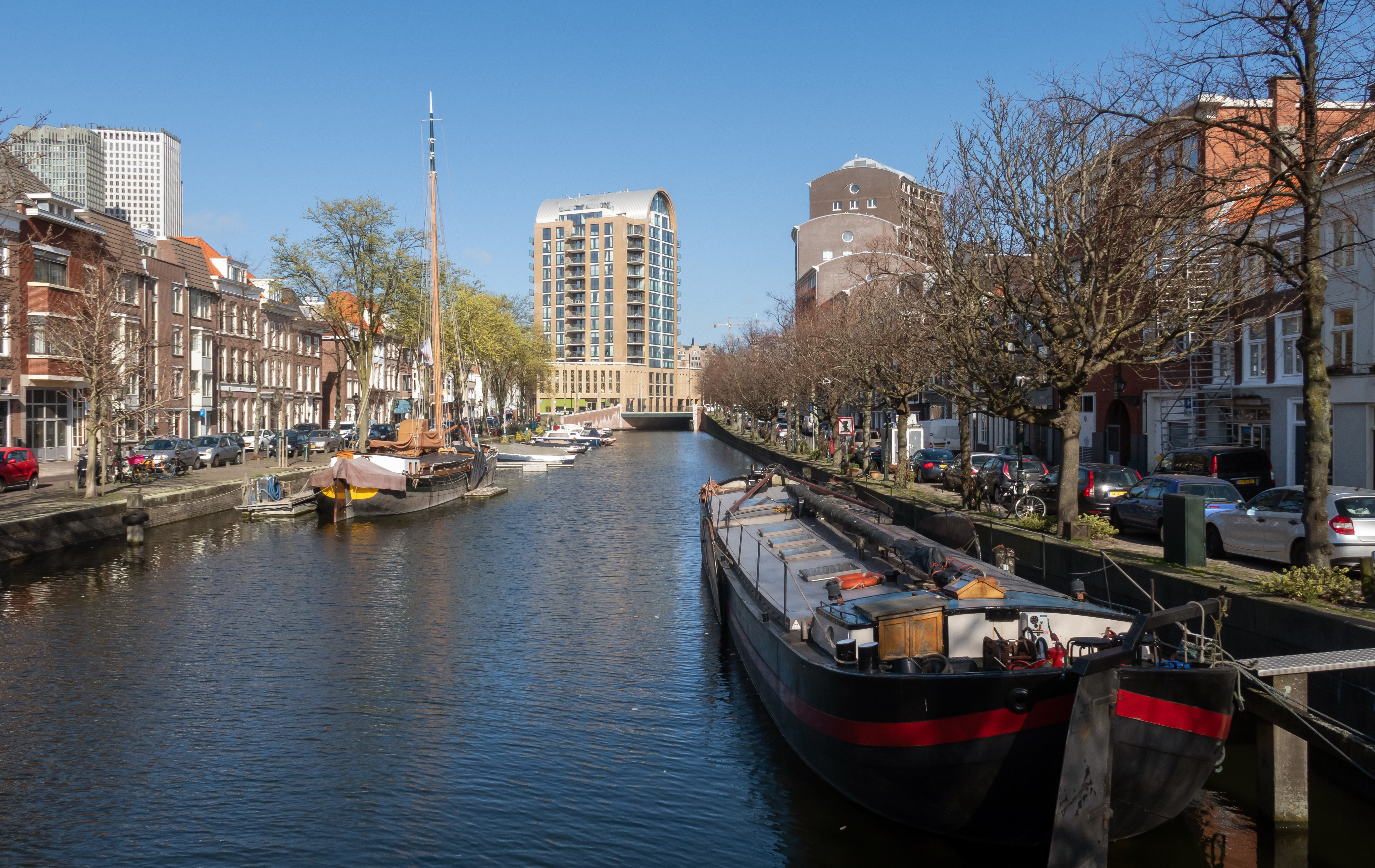 The Hague, street view Bierkade-Groenewegje from bridge across Wagenstraat-Stationstraat